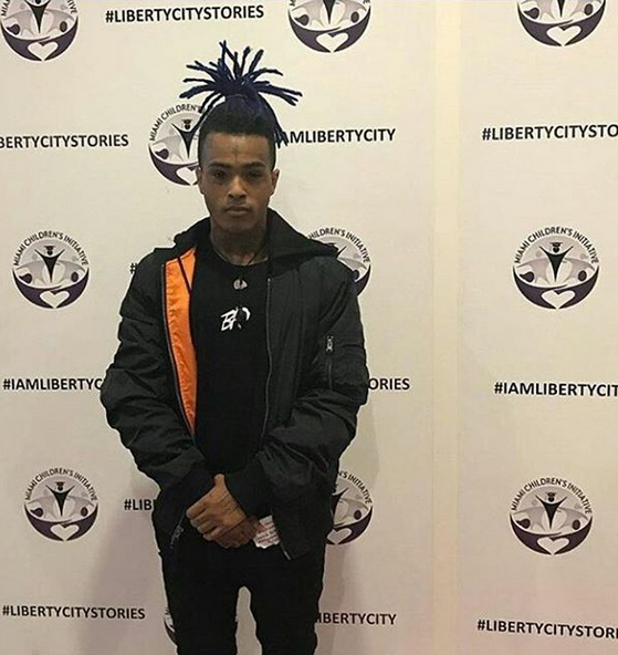 XXXTentacion outside Charles R. Drew High School for Miami Children's Initiative